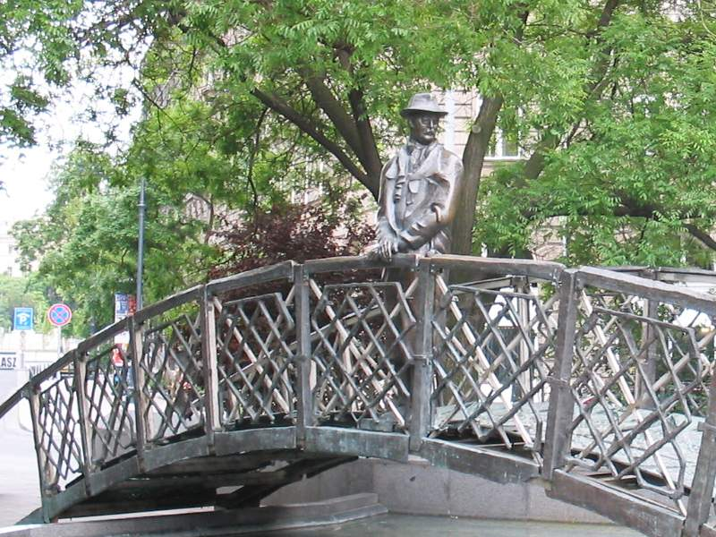 Imre Nagy, statue at Vértanúk ter (Martyrs' square), Budapest. Picture taken by myself, ie. public domain Слика:Imre Nagy, Budapest statue.jpg